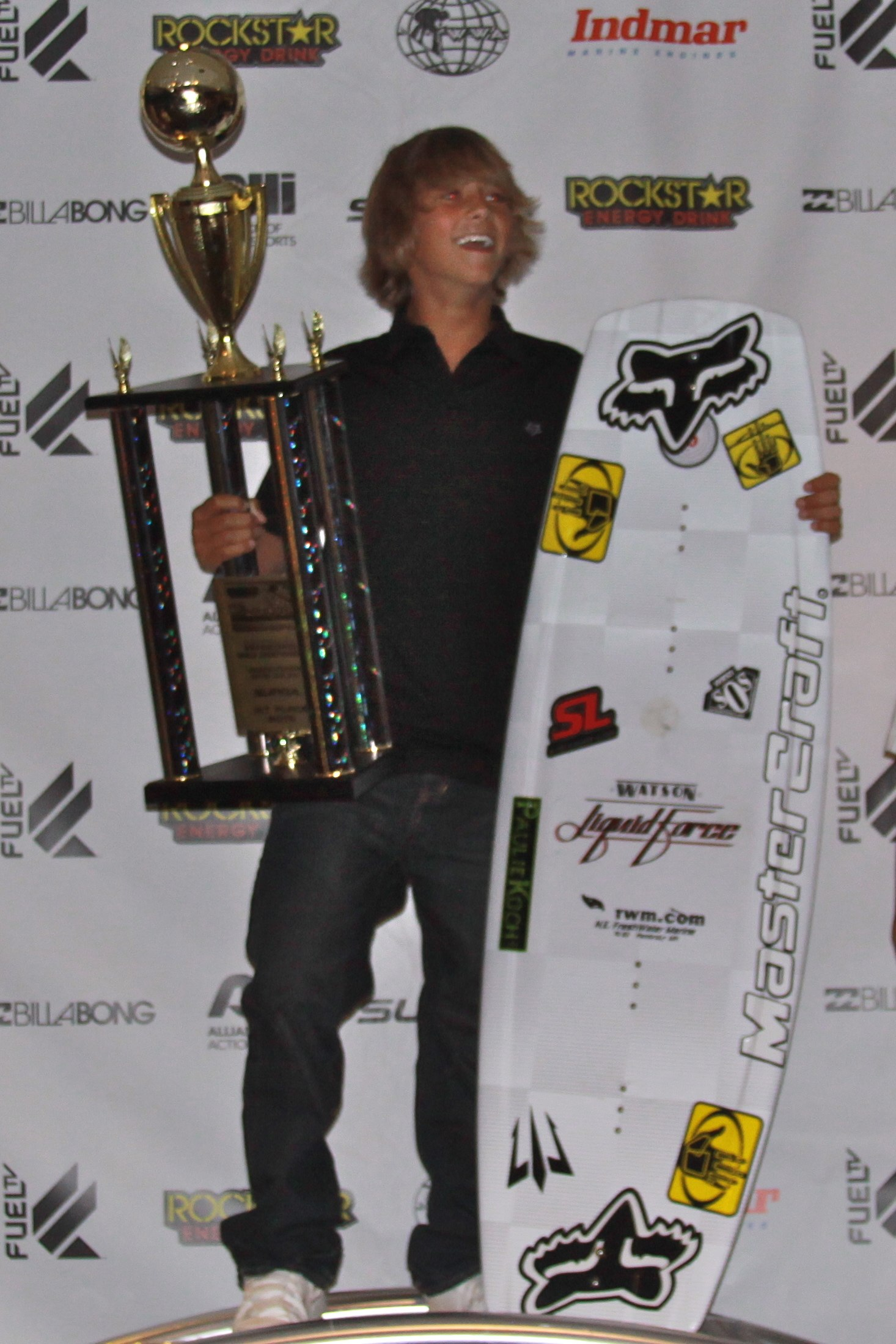 Paulie Koch wins 2010 World Championship